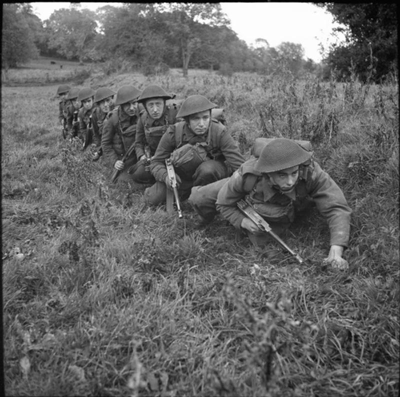 The British Army in the United Kingdom 1939-45 An infantry section of 6th Battalion, The Seaforth Highlanders, creep forward during exercises at Crum Castle in Fermanagh, Northern Ireland, November 1941.